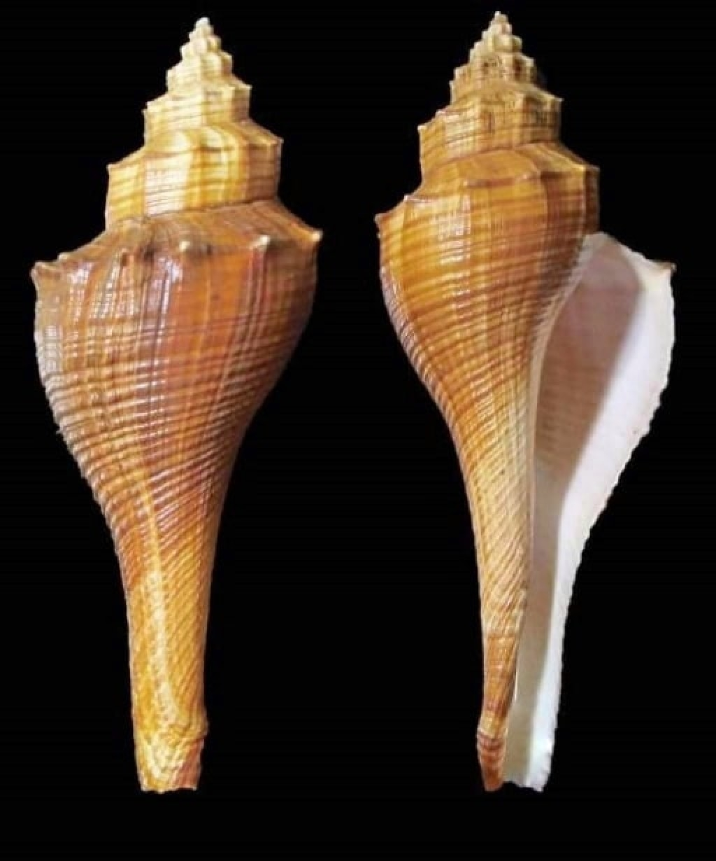 Two views of the seashell of the species Brunneifusus carinifer (Habe & Kosuge, 1966)[1] / Origin. Philippines. Negros. Familyː Melongenidae.